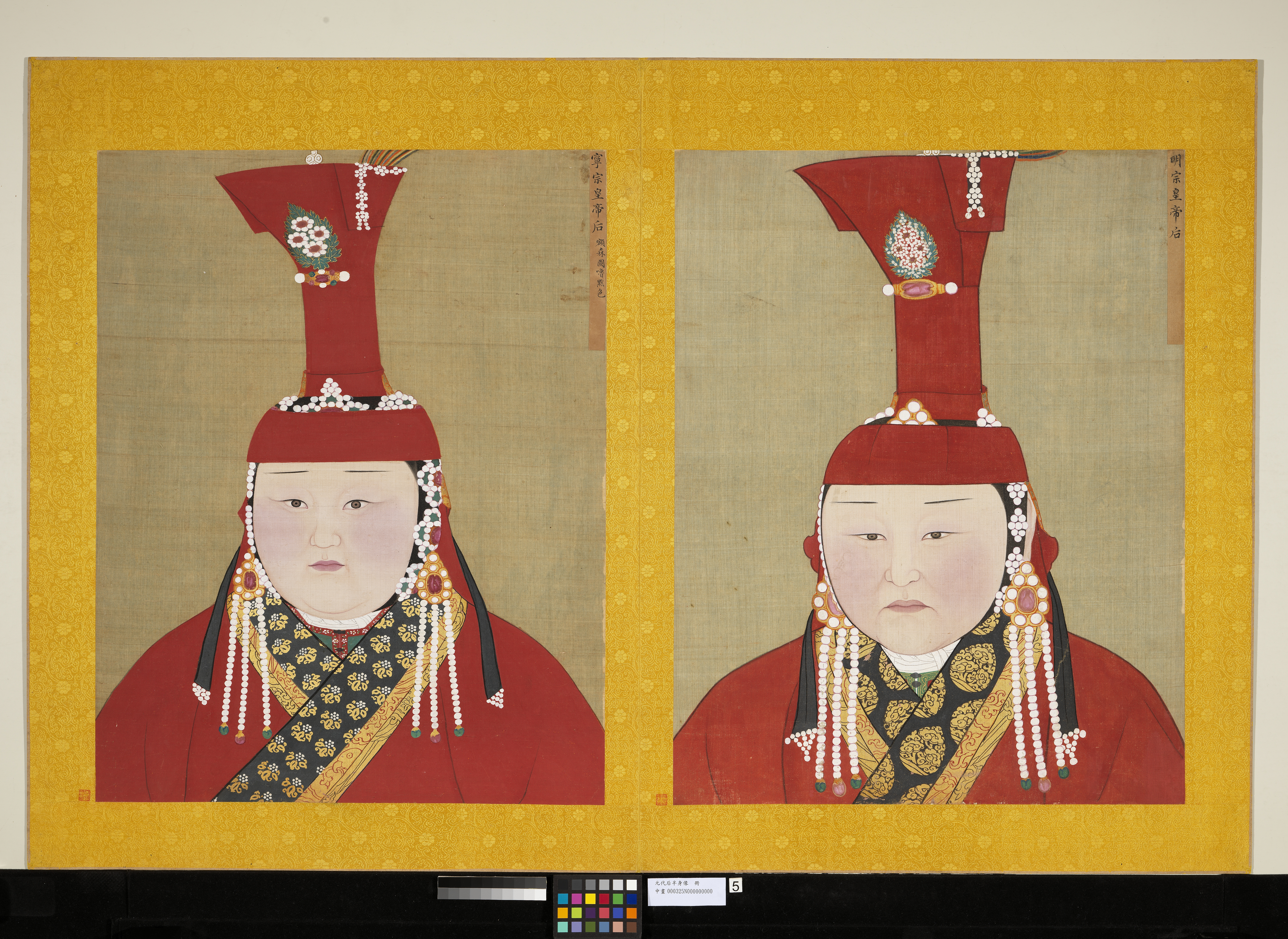 Two unnamed wifes of Qoshila (a.k.a. Mingzong) (right) and Irinchinbal (a.k.a. Ningzong) (left). Paint and ink on silk. Page from an album depicting several consorts of Yuan emperors (Yuandai dihou banshenxiang), now located in the National Palace Museum in Taipei (inv. nr. zhonghua 000325). Original size is 114.7 cm wide and 76 cm high. For the portraits cropped out, see Image:YuanEmpressAlbumWifeOfQoshila.jpg and Image:YuanEmpressAlbumAWifeOfIrinchinbal.jpg.